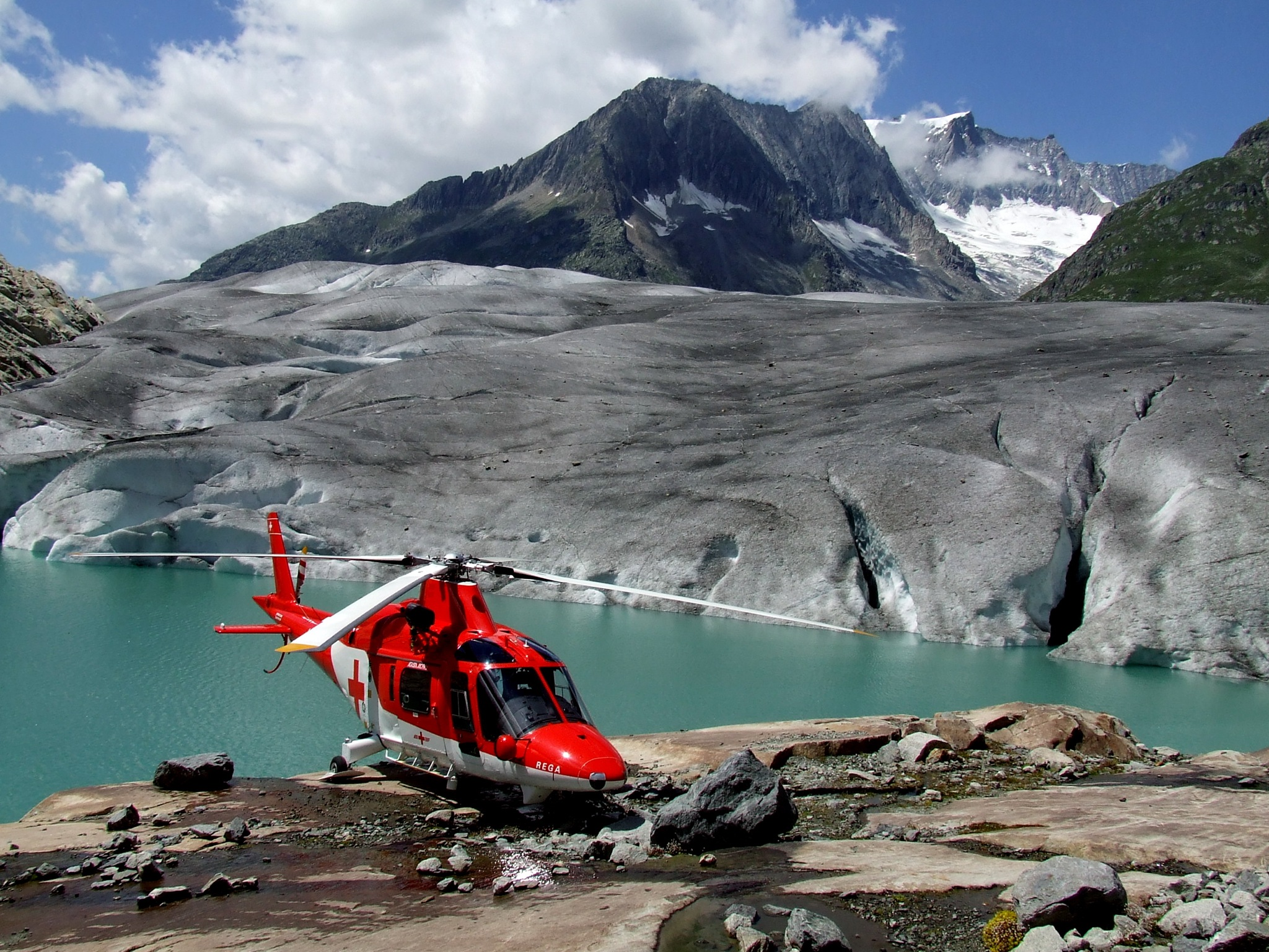 Rega helicopter and the Aletsch Glacier